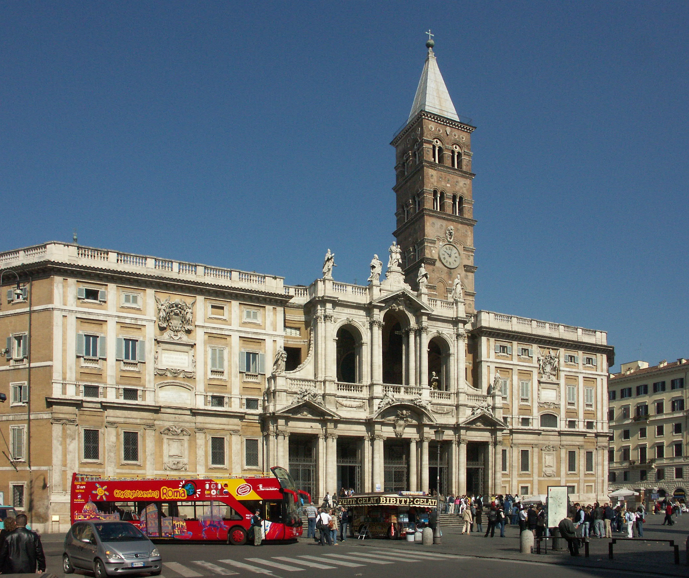 Rome, Basilica di Santa Maria Maggiore - front